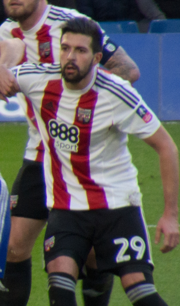 Yoann Barbet playing for Brentford against Chelsea at Stamford Bridge, London on 28 January 2017